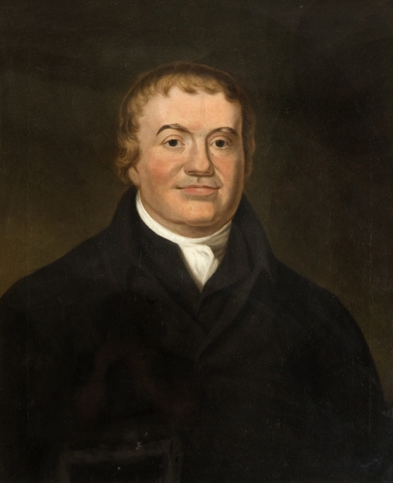 Portrait of David Dale (1739–1806), Scottish merchant.